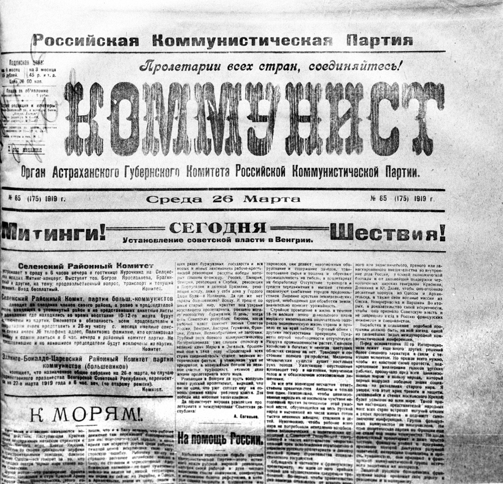 “Newspaper "Communist" issued on 26 March, 1919”. Newspaper "Communist" of the Astrakhan Province Committee of the Russian Communist Party, issued on 26 March, 1919.